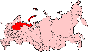 North Region 1936 - 1937, based on Image:RussiaArkhangelsk2007-07.png